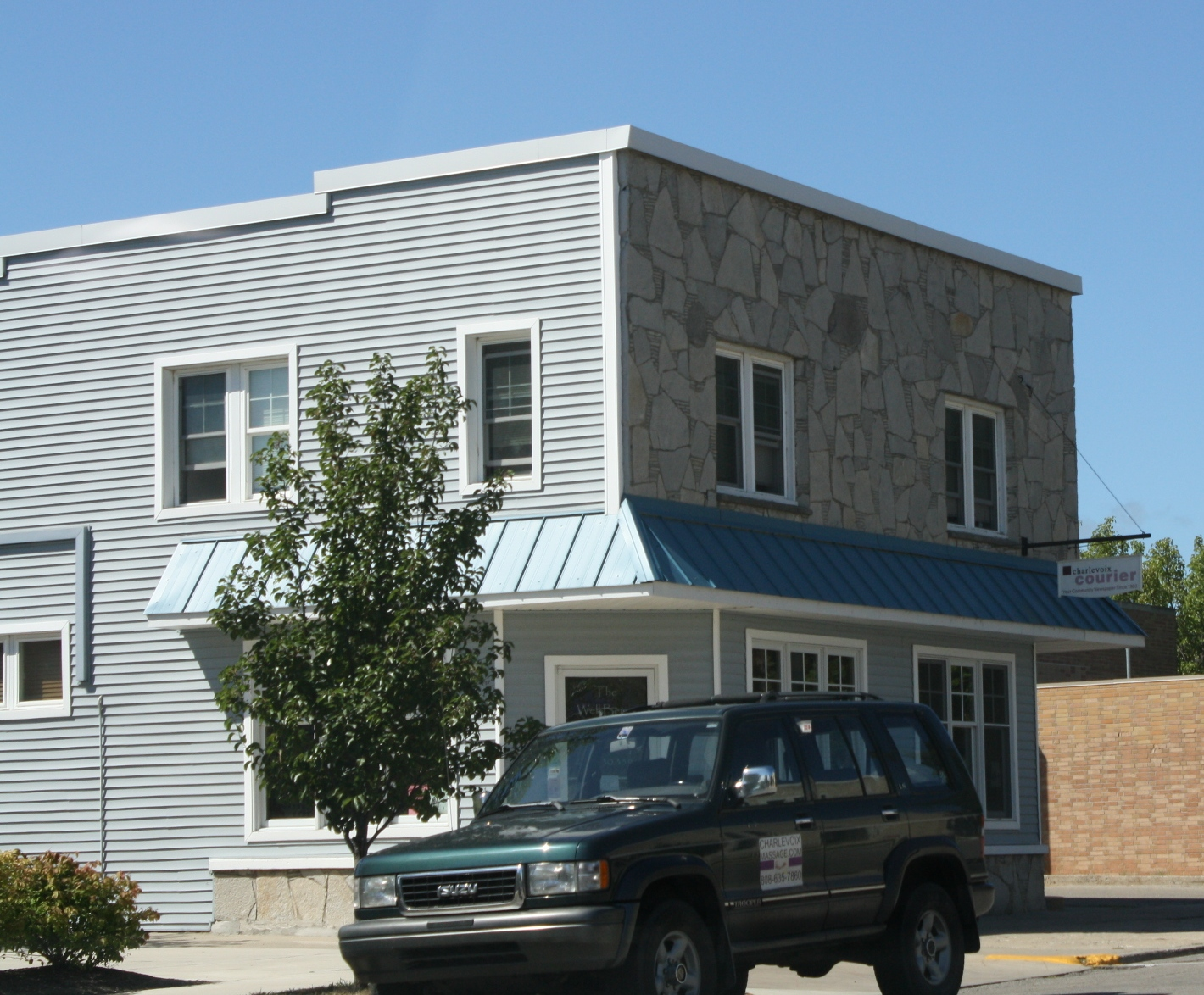 The Charlevoix Courier newspaper building in Charlevoix, Michigan on U.S. Route 31.